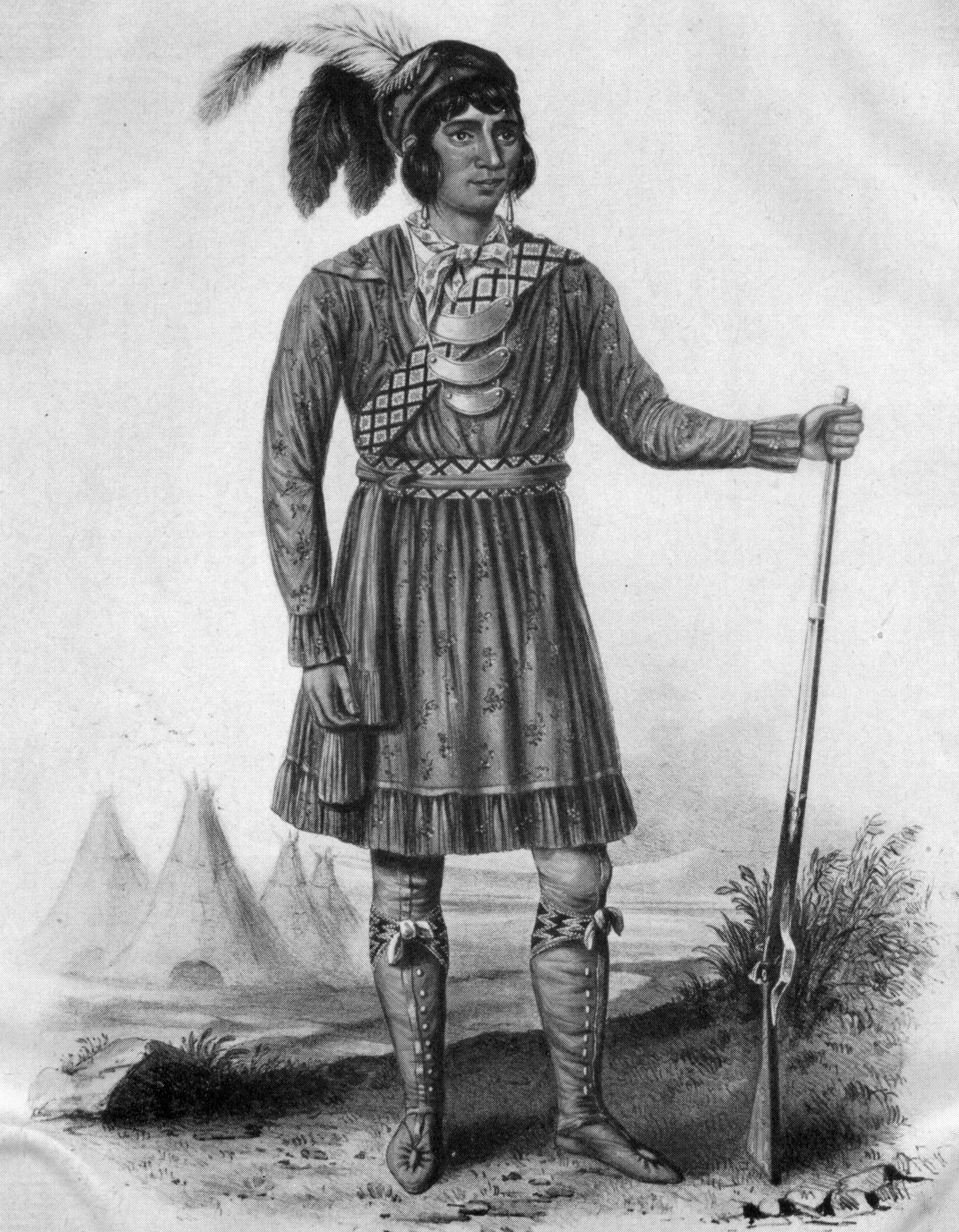 "OSCEOLA, A CHIEF OF THE SEMINOLE INDIANS. The most celebrated character in the Indian Wars of Florida. From a lithograph in McKenney and Hall, History of the Indian Tribes of North America, Philadelphia. 1838."